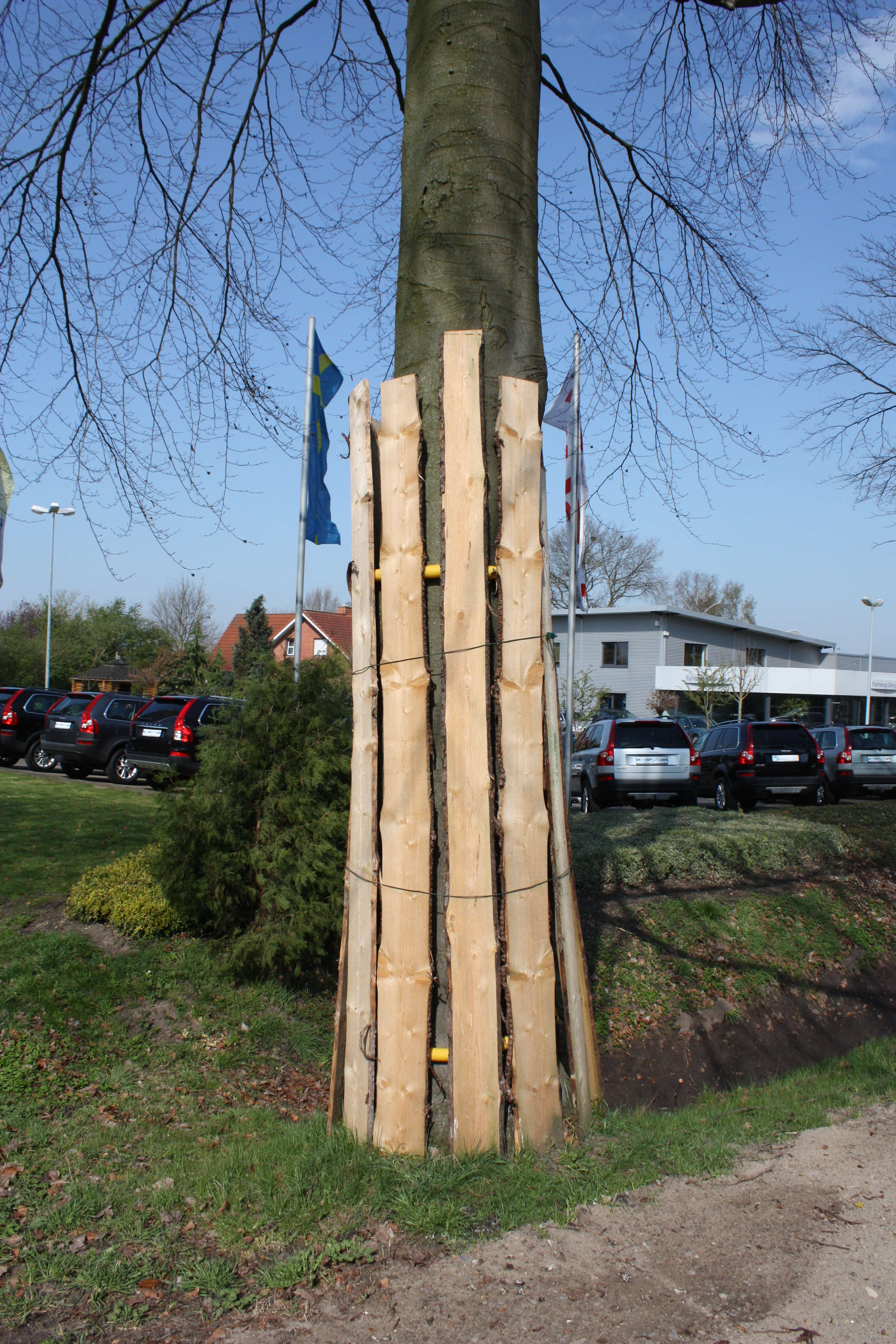 temporary tree protection on a construction site in Germany